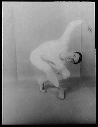 Title: Portrait of Paul Taylor, in Episodes, New York City Ballet Abstract/medium: 1 photographic print : gelatin silver.